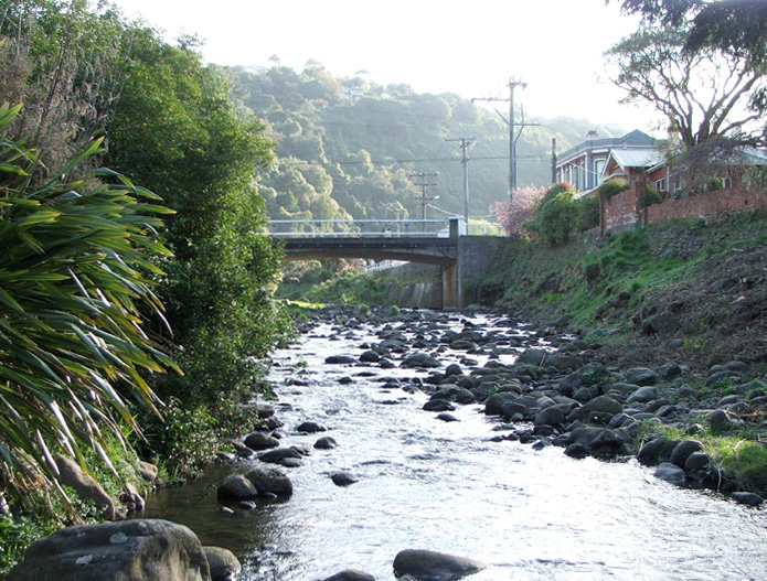 Upper reaches of the Water of Leith, Woodhaugh, Dunedin, New Zealand, looking at the southern Malvern Street road bridge.